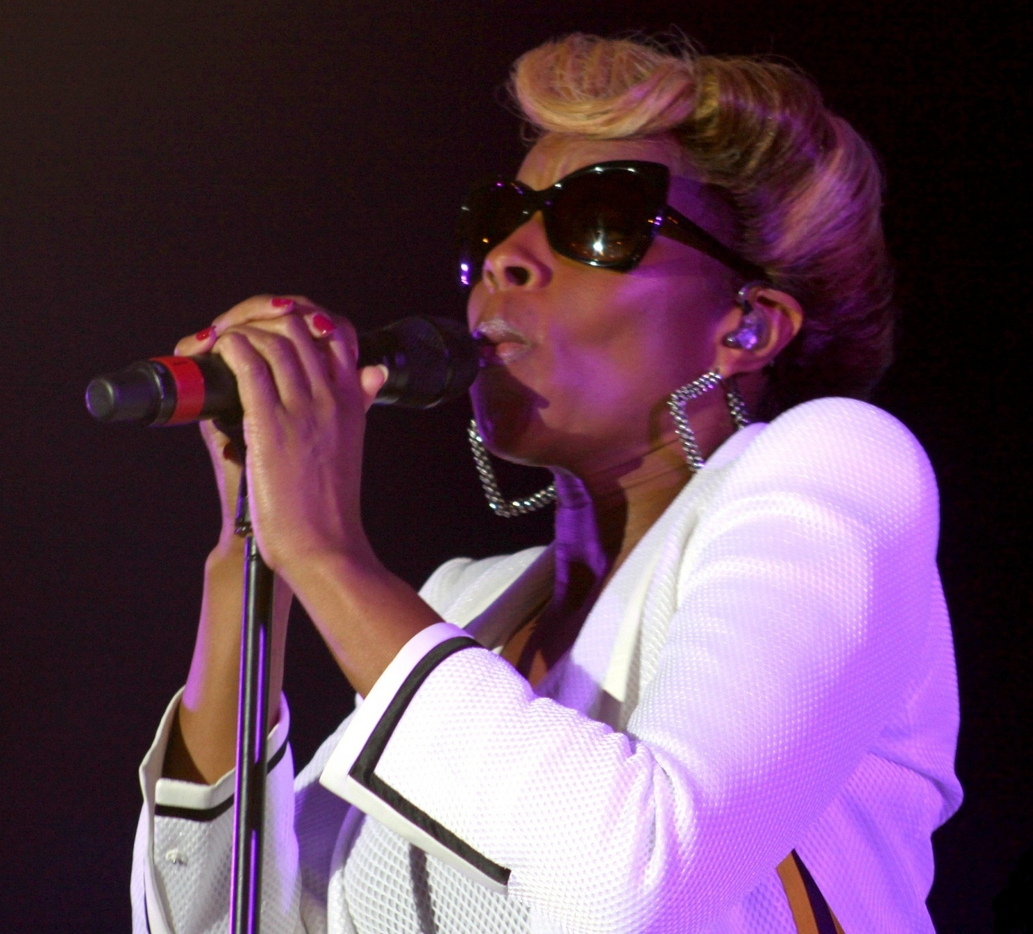 Mary J. Blige at Jazz in the Garden 2012.